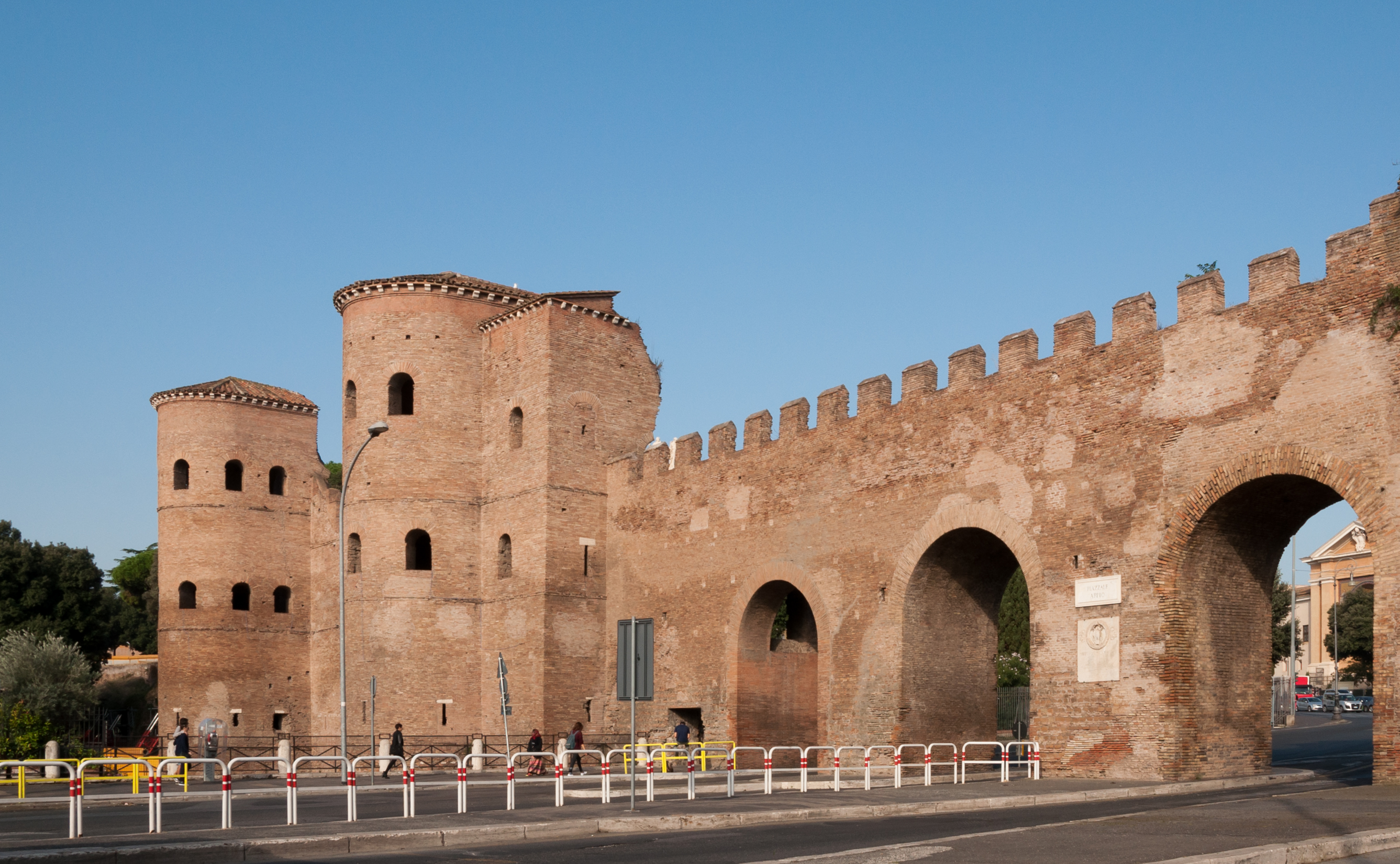 The Aurelian Walls at Porta Asinaria, Rome.